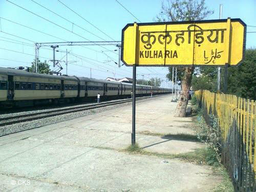 Kulharia